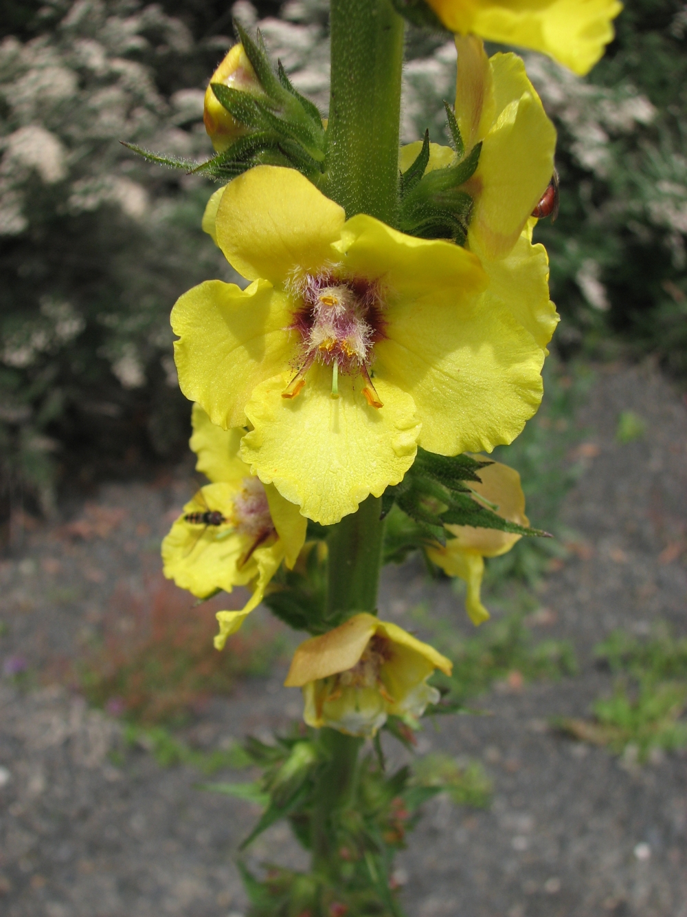 Verbascum virgatum, Baw Baw National Park, Victoria, Australia